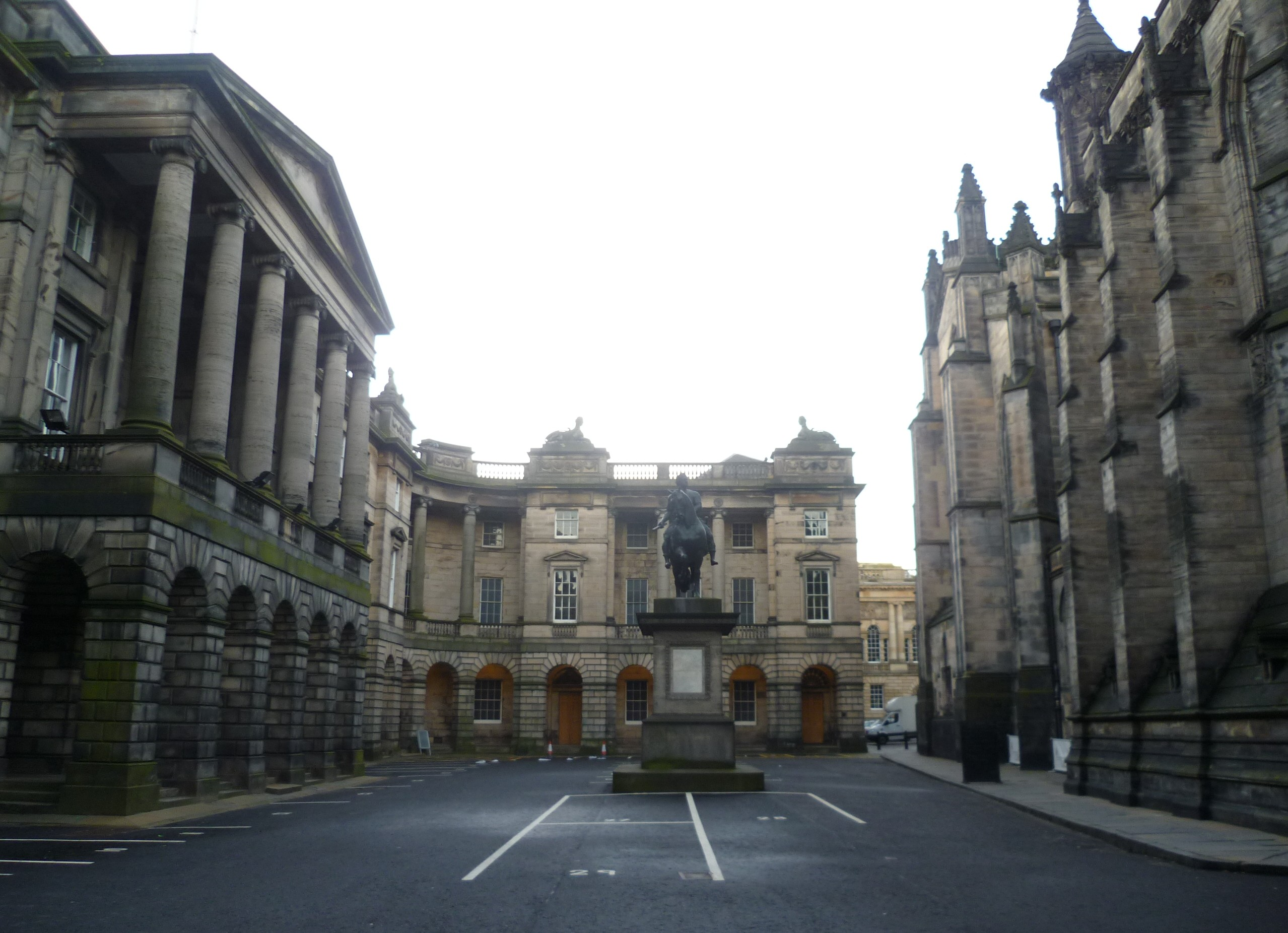 Parliament Square, Edinburgh